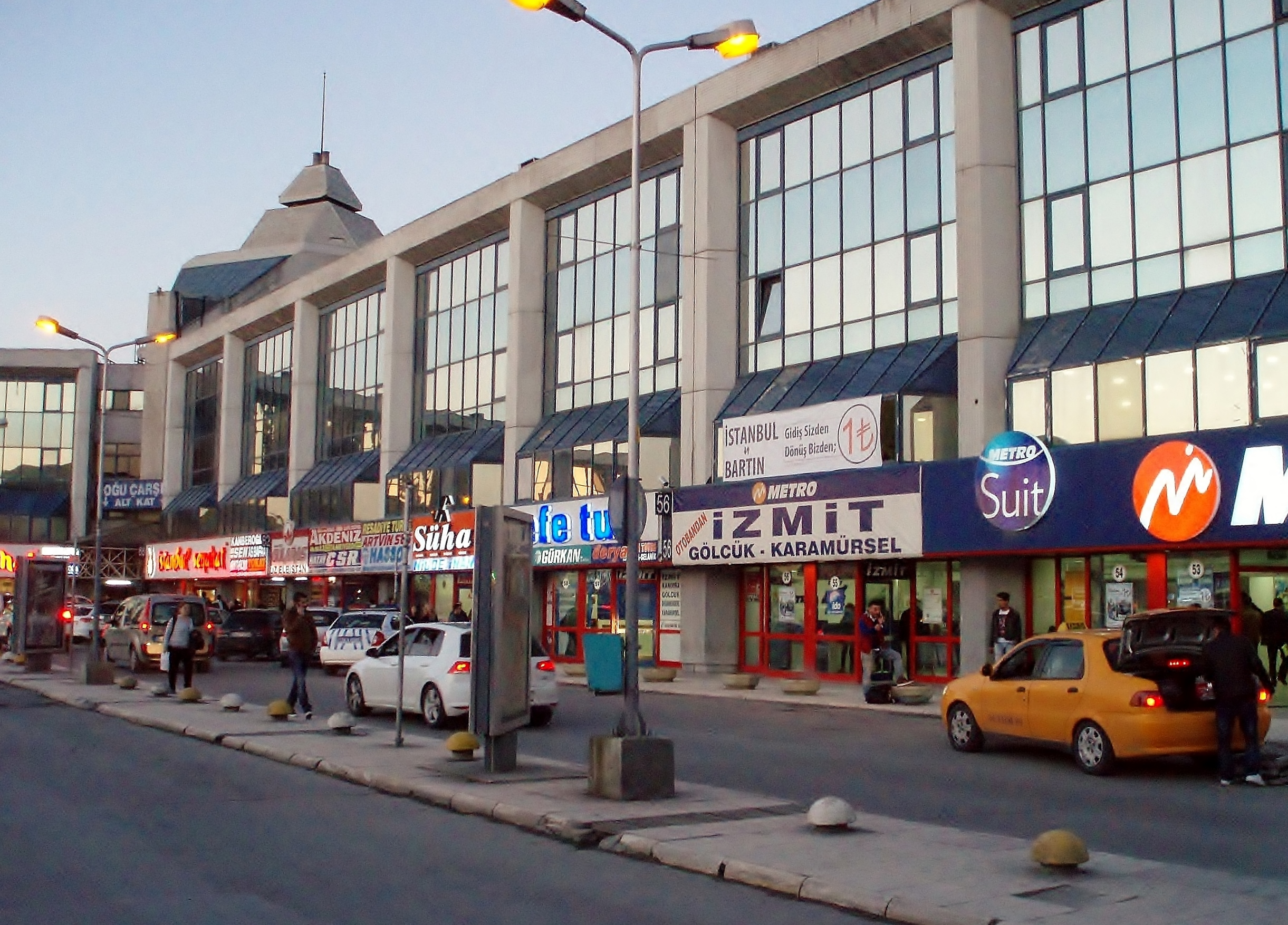 Esenler Bus Terminus (Otogar) in Istanbul, Turkey